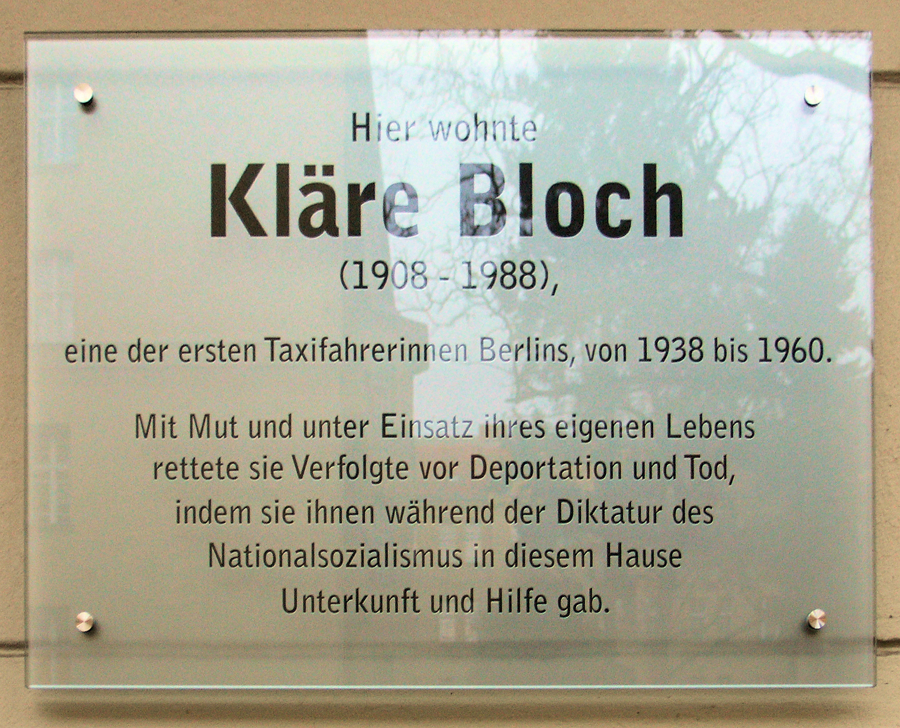 Memorial plaque, Kläre Bloch, Horstweg 28, Berlin-Charlottenburg, Germany Koordinate:52°30′44″N 13°17′26″E / 52.51222°N 13.29056°E